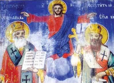 Živovo, Church of Saint Petka, "Bulgarian enlighteners St. Methodius and St. Cyril" fresco, north wall.